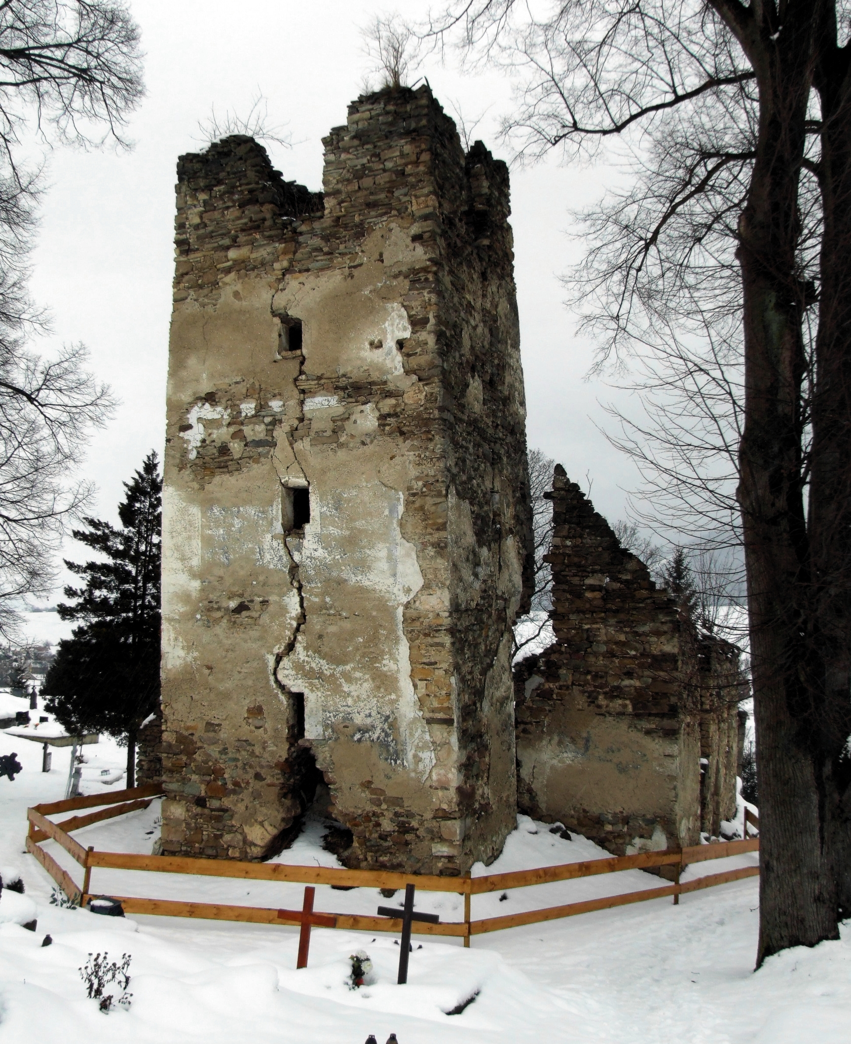 Stránske - gothic church ruins